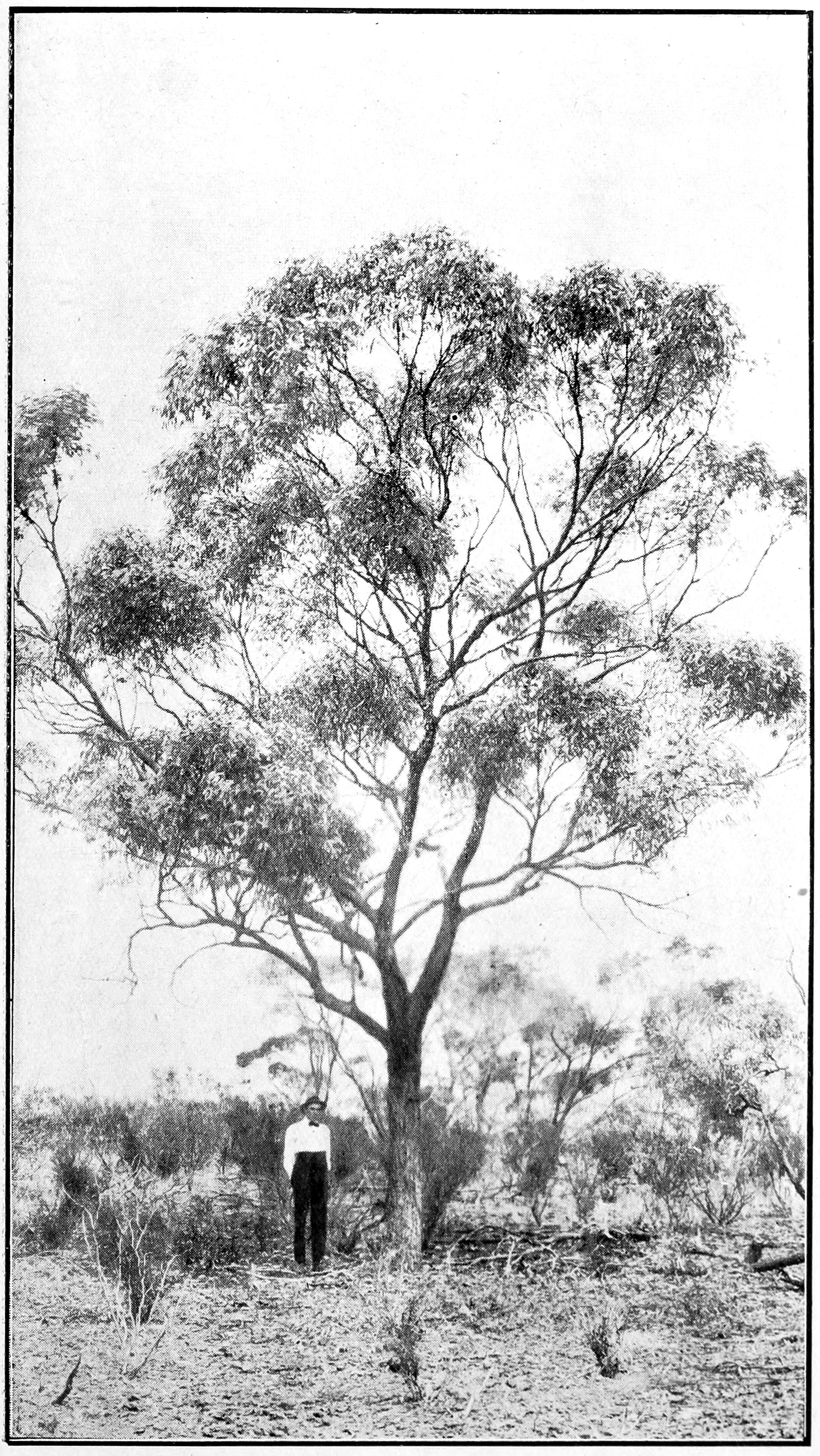 Photograph illustrating source, removed caption in title of image. Categorised by the systematic name given in text, or current synonym in taxonomy at commons.